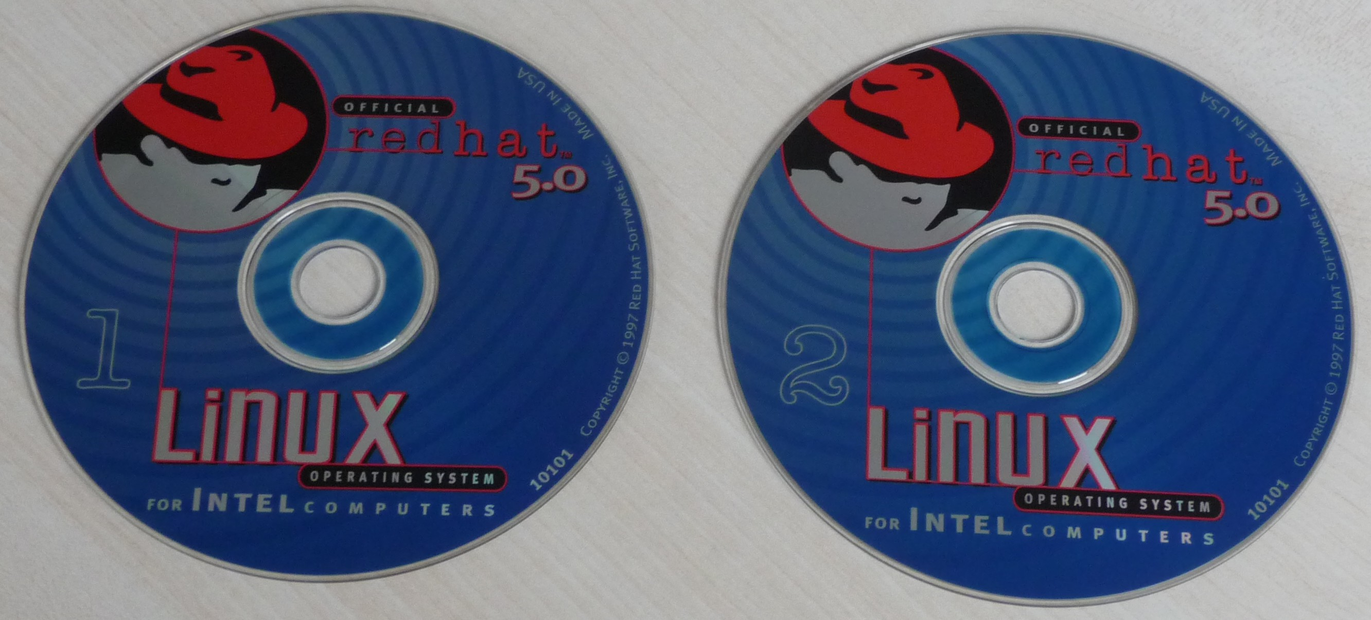 Red Hat 5.0 CDROM's